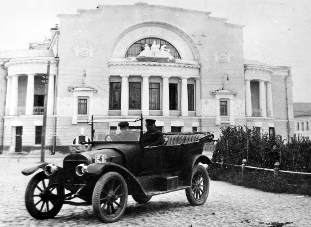 The first taxi in Yaroslavl